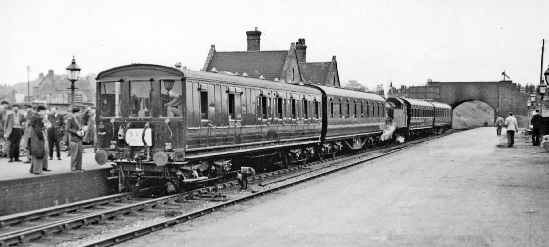 Aldridge station, with Society Special train, 1951View eastward, towards Castle Bromwich and Birmingham New Street. This was a Stephenson Locomotive Society Special, formed of the auto-train, suitably strengthened, normally employed on the ex-Midland (Birmingham) - Castle Bromwich - Sutton Coldfield - Walsall line (closed 18/1/65); a branch had run from here - behind camera - to Brownhills (Watling Street) until 31/3/30. The locomotive is LMS-type Ivatt 2MT 2-6-2T No. 41226 (built 11/48, withdrawn 9/64).